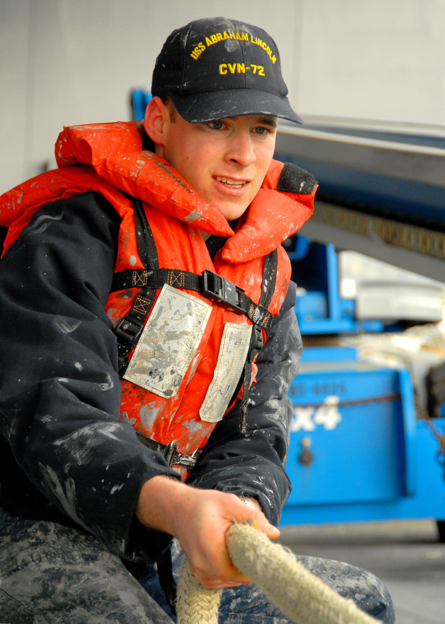 BREMERTON, Wash. (March 14, 2007) - Seaman Ryan M. Wiuff, a member of Deck Department's paint team, heaves around a line while repositioning a painting barge underneath an elevator on the Nimitz-class aircraft carrier USS Abraham Lincoln (CVN-72). Since late August, Sailors from Lincoln's Deck Department have applied haze-gray paint by hand to more than 250,000 square feet of the ship's hull and weather decks, and black paint to an additional 20,000 square feet at the waterline. Lincoln is currently wrapping up the last phase of its Dry-dock Planned Incremental Availability (DPIA) in which months of hard work from Sailors and civilians have successfully prepared the ship for its return to full operational capability. U.S. Navy photo by Mass Communication Specialist 3rd Class James R. Evans (RELEASED)